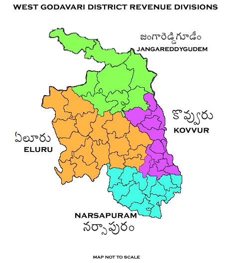 Revenue divisions map of West Godavari district